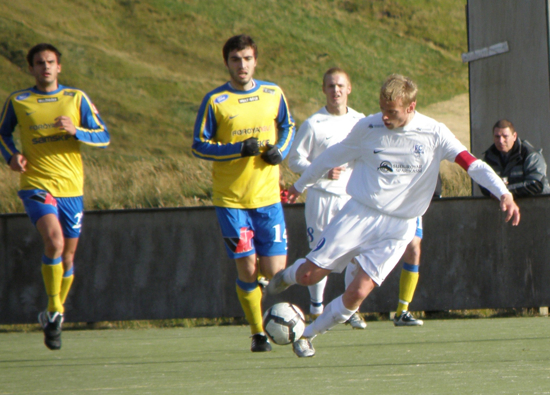 This photo was taken on 2 October 2010 on Sandoy, Faroe Islands at the football match between two of the bottom teams in the best Faroese division in the 2010 season: B71 Sandoy (number 8 of 10) and FC Suðuroy (number 9 of 10). The match ended 2-2, after the first half it was 0-2. The difference in points both before and after this match was 4 points. The following weekend FC Suðuroy won their match and B71 lost theirs, so the difference is now (beginning of October 2010) only one point. One of these two teams will be relegated to 1. deild (the second best division), two more matches in the 2010 season. The players in yellow/blue are B71 Sandoy players, the players in white are FC Suðuroy players. These players are from the left: Marko Stanić and Danilo Kovčević both from Serbia, Martin Tausen (number 8) and Palli Augustinussen (number 9), the captain of FC Suðuroy. Augustinussen has played with the Faroe Islands national team a few times. Martin Tausen has played on the U17 and U19 Faroe Islands national teams. Føroyskt: Vodafondystur Inni í Dal á Sandoynni 2. oktober 2010. B71 leikararnir (í gulum/bláum) eru: Marko Stanić og Danilo Kovčević, sum báðir eru serbar, FC Suðuroy leikararnir (í hvítum) eru: Martin Tausen (tann aftari, nummar 8) og liðskiparin Palli Augustinussen (nummar 9). Dysturin endaði 2-2. Liðini kempaðu bæði fyri at vera verandi í bestu deildini. 4 stig vóru á muni millum bæði liðini bæði áðrenn og aftaná dystin. Bara AB hevði færri stig enn FC Suðuroy.